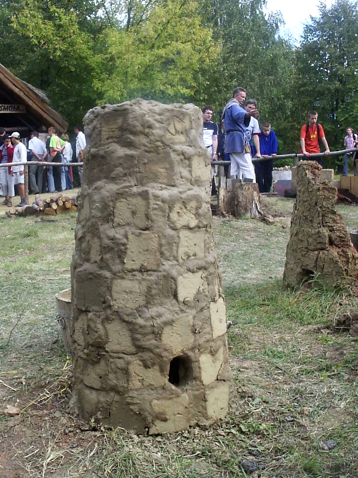 Biskupin, Poland